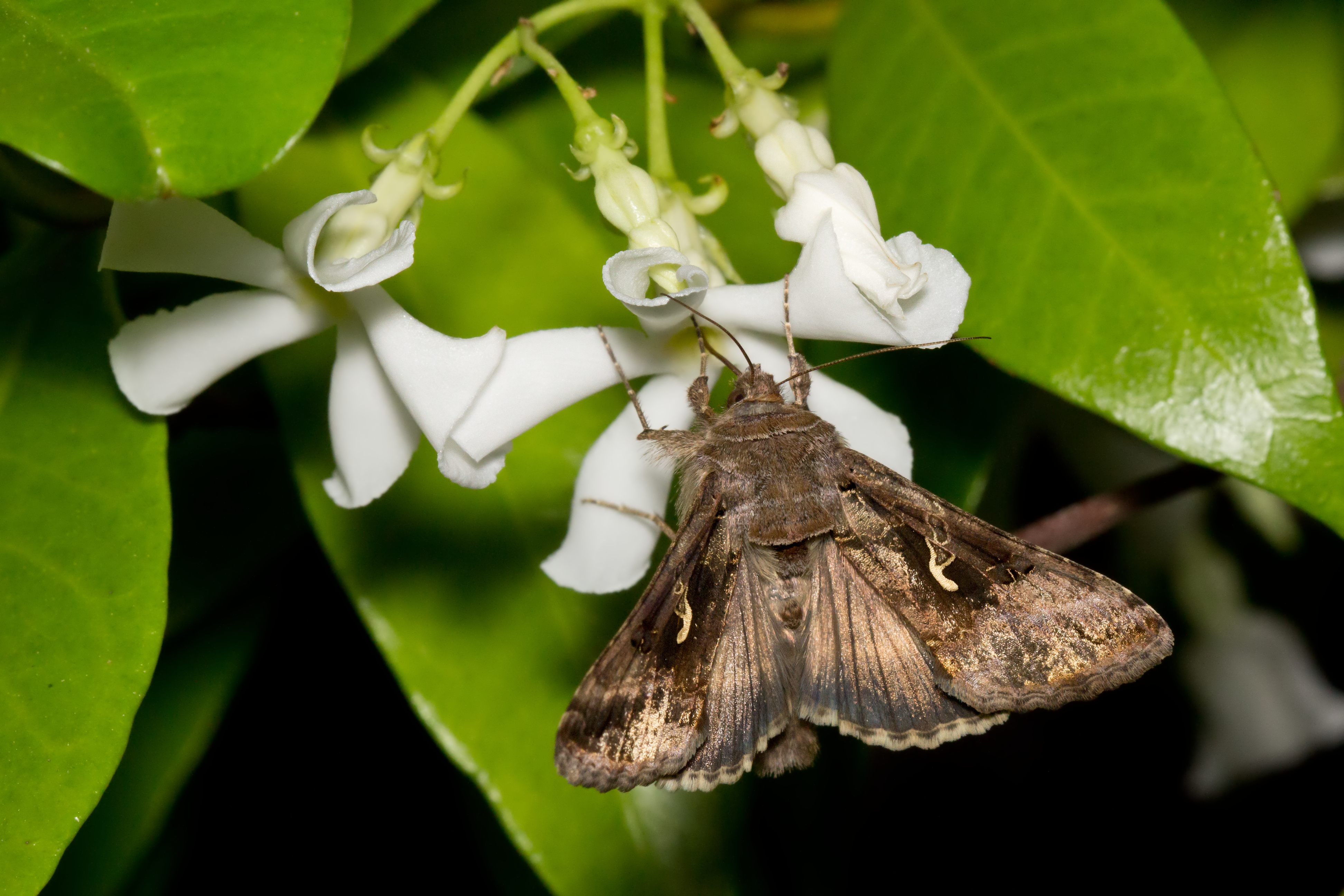 Autographa gamma on Trachelospermum jasminoides.